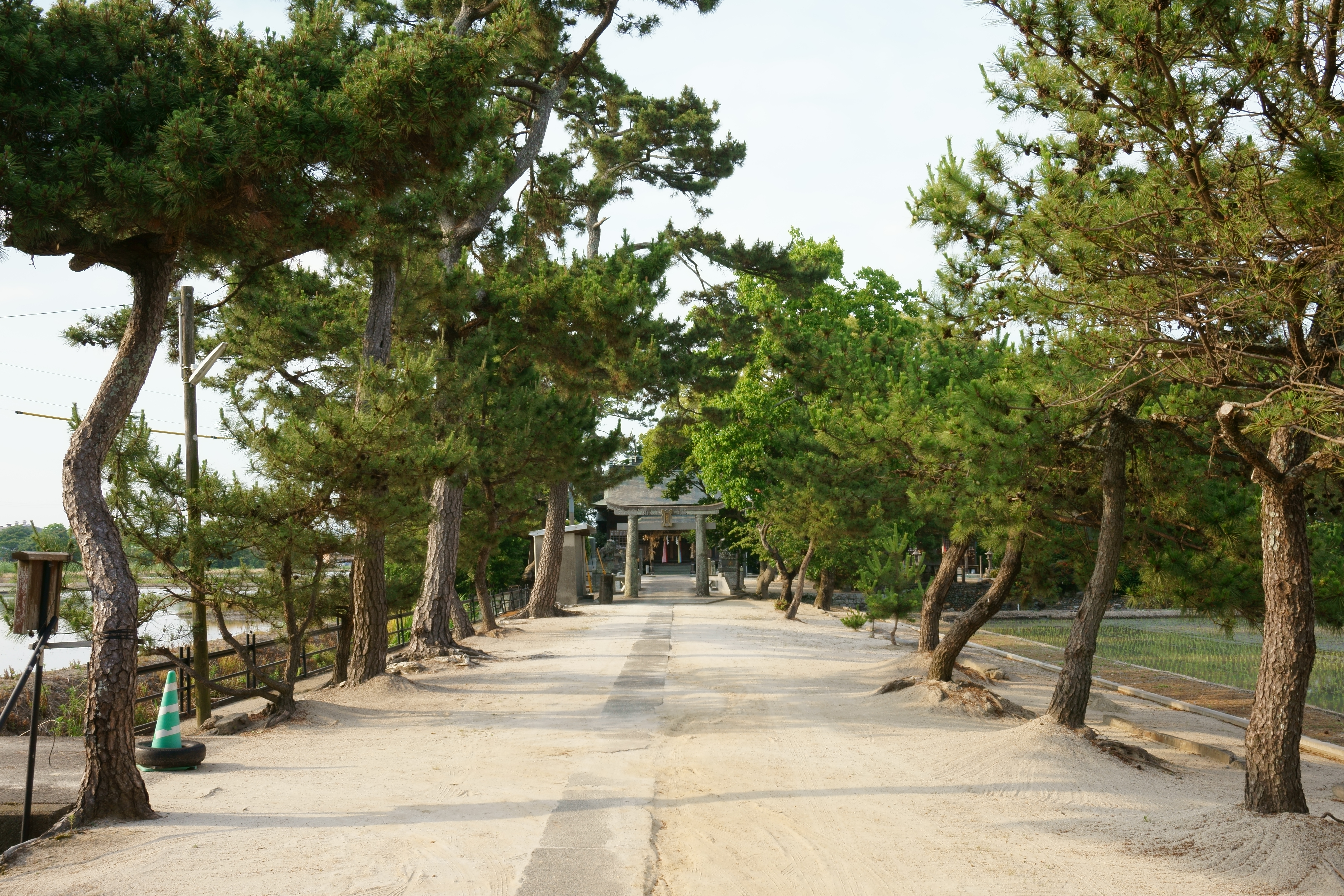 An entry path of Matsueda Shrine in Odakuma, Saga city, Saga prefecture.